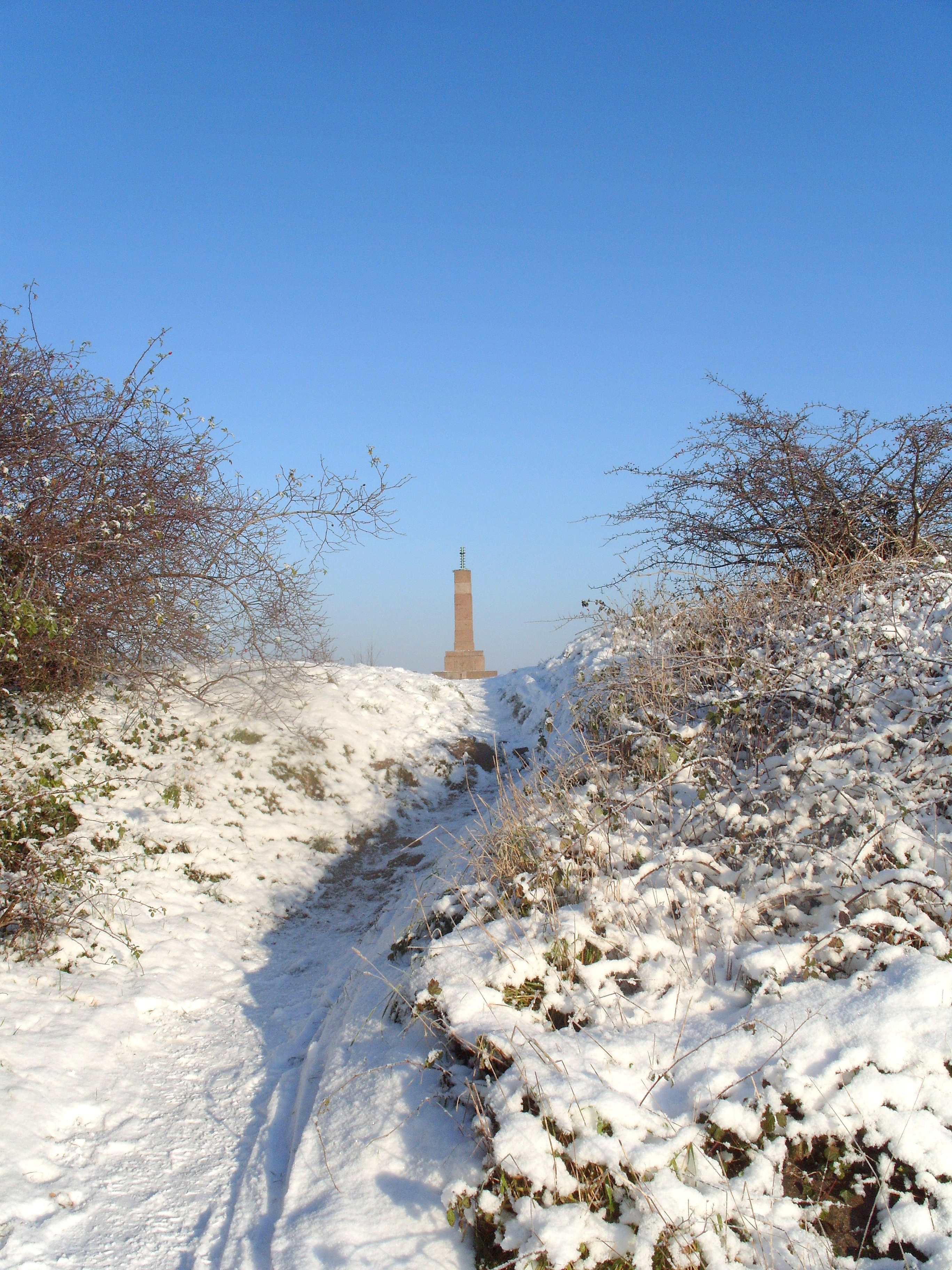 Mountsorrel Castle Hill. Memorial to men fallen in War made from Mountsorrel Pink Granite and made and erected in Mountsorrel